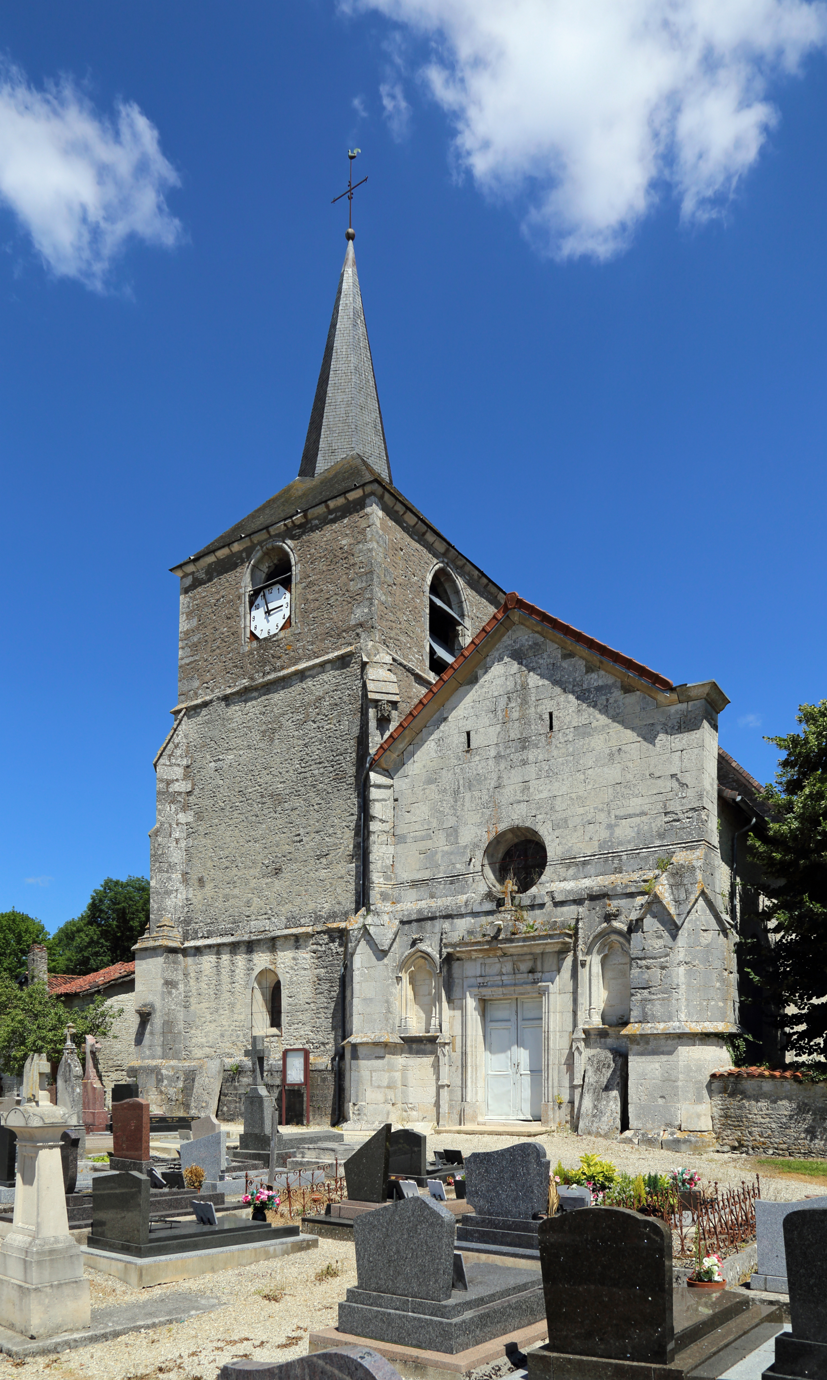 Rouvres-les-Vignes (Aube department, France): Saint Maurice church